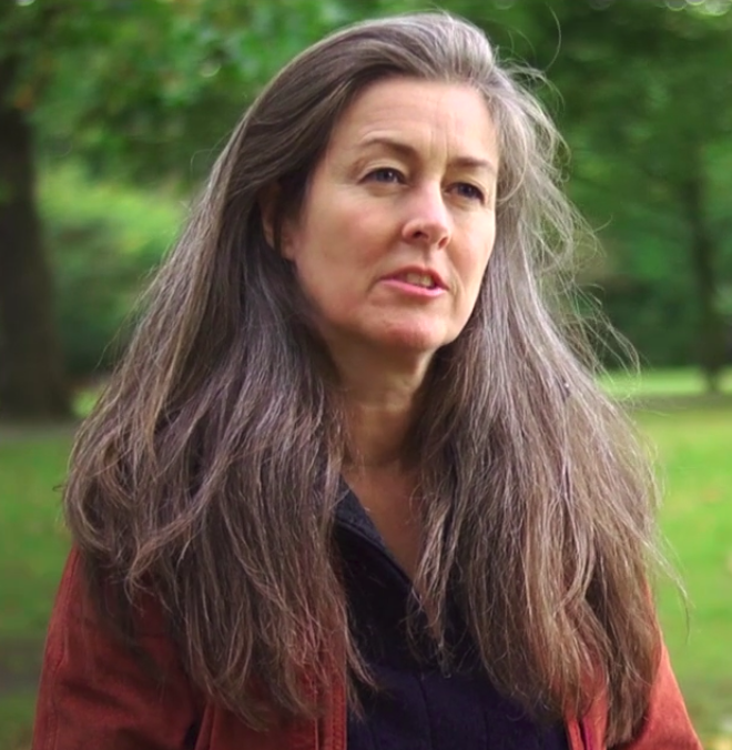 Image extracted from video "Polly Higgins - Seed Freedom" by You and I Films.